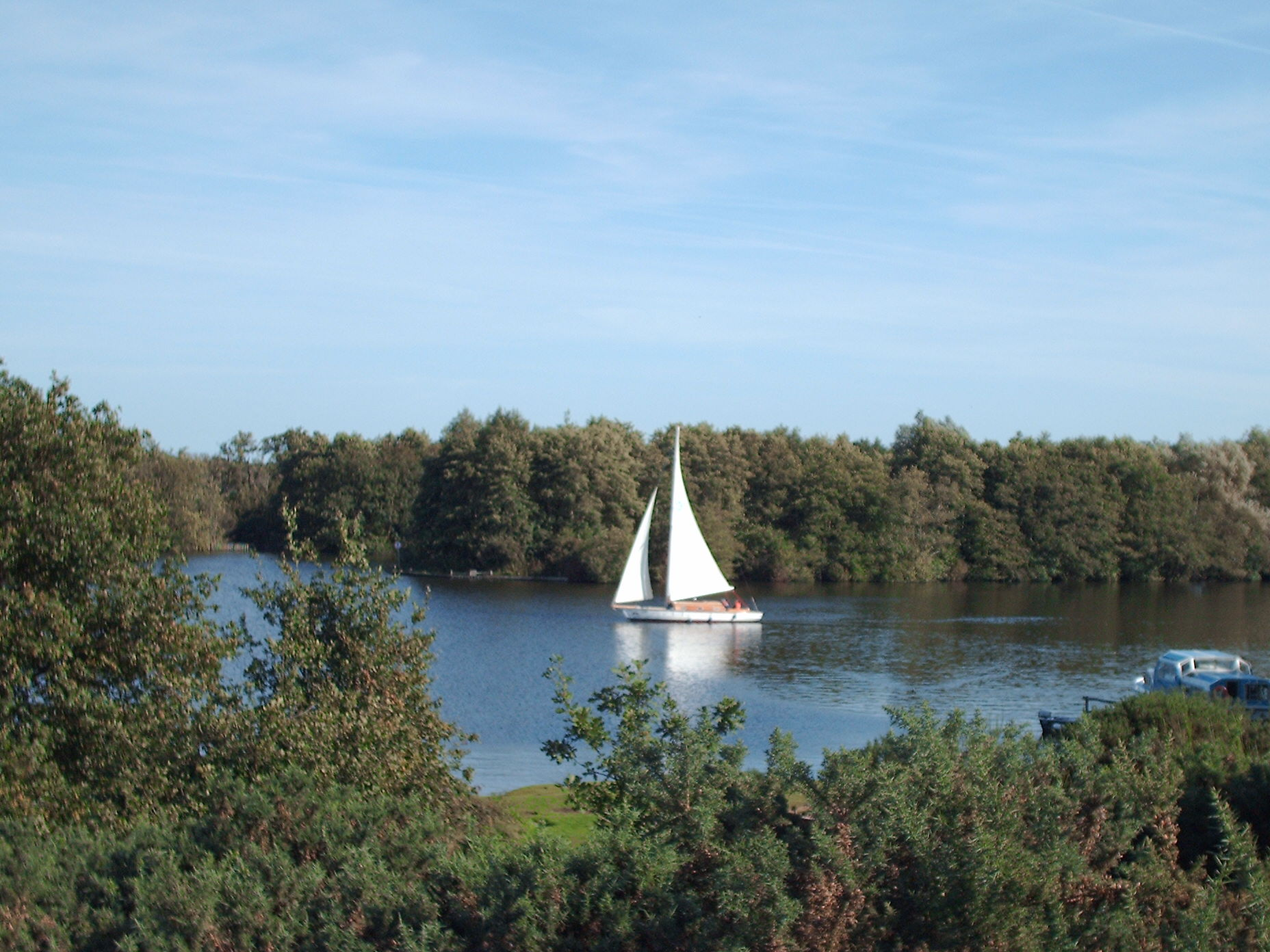 Taken by Simon Jacobs